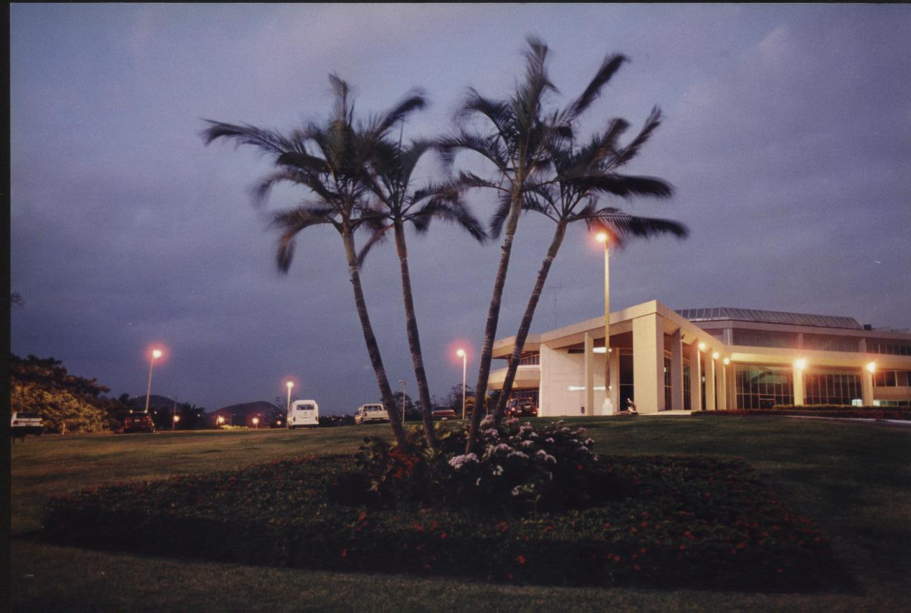 Vista del Edificio del Rectorado de la Escuela Superior Politecnica del Litoral